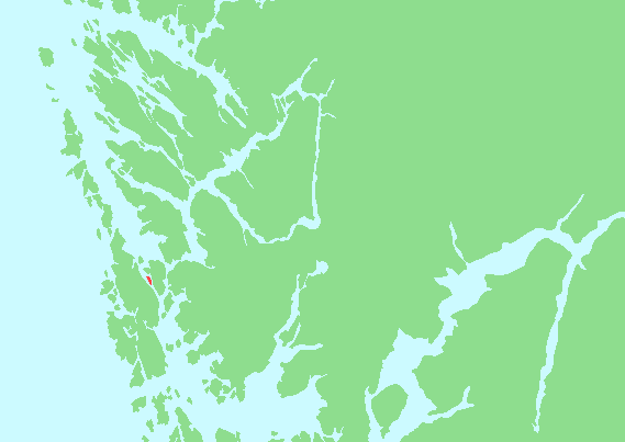 Locator map of Bildøy, Hordaland, Norway